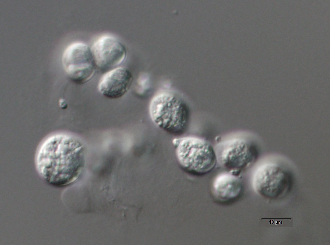 Aurantiochytrium limacinum strain SR21 / Olympus IX71+DP72